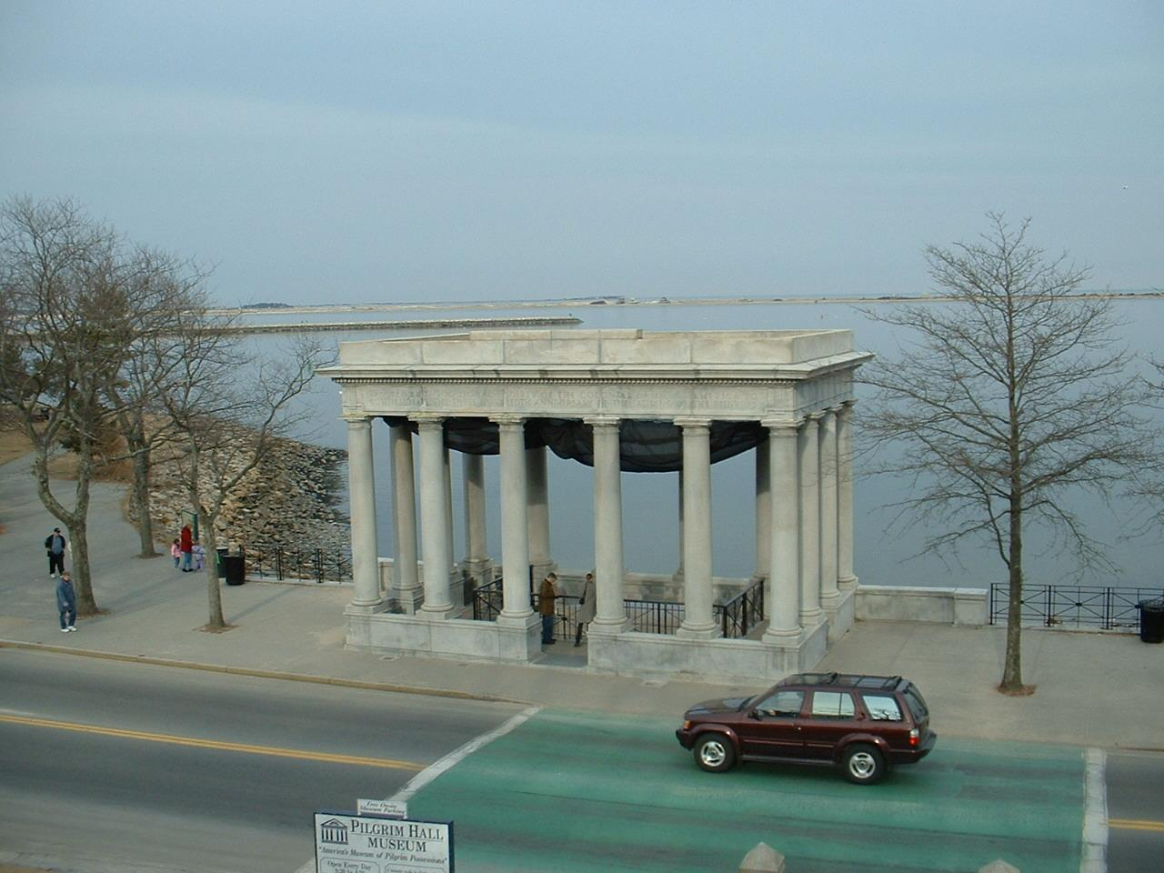 The Plymouth Rock Monument, along the edge of Plymouth Harbor. The rock was not actually located there originally, originally lying in the harbor and moved to the site in the early twentieth century. According to an apocryphal story, the person who originally identified the rock only knew it from family tradition. (Architects: McKim, Mead and White.)